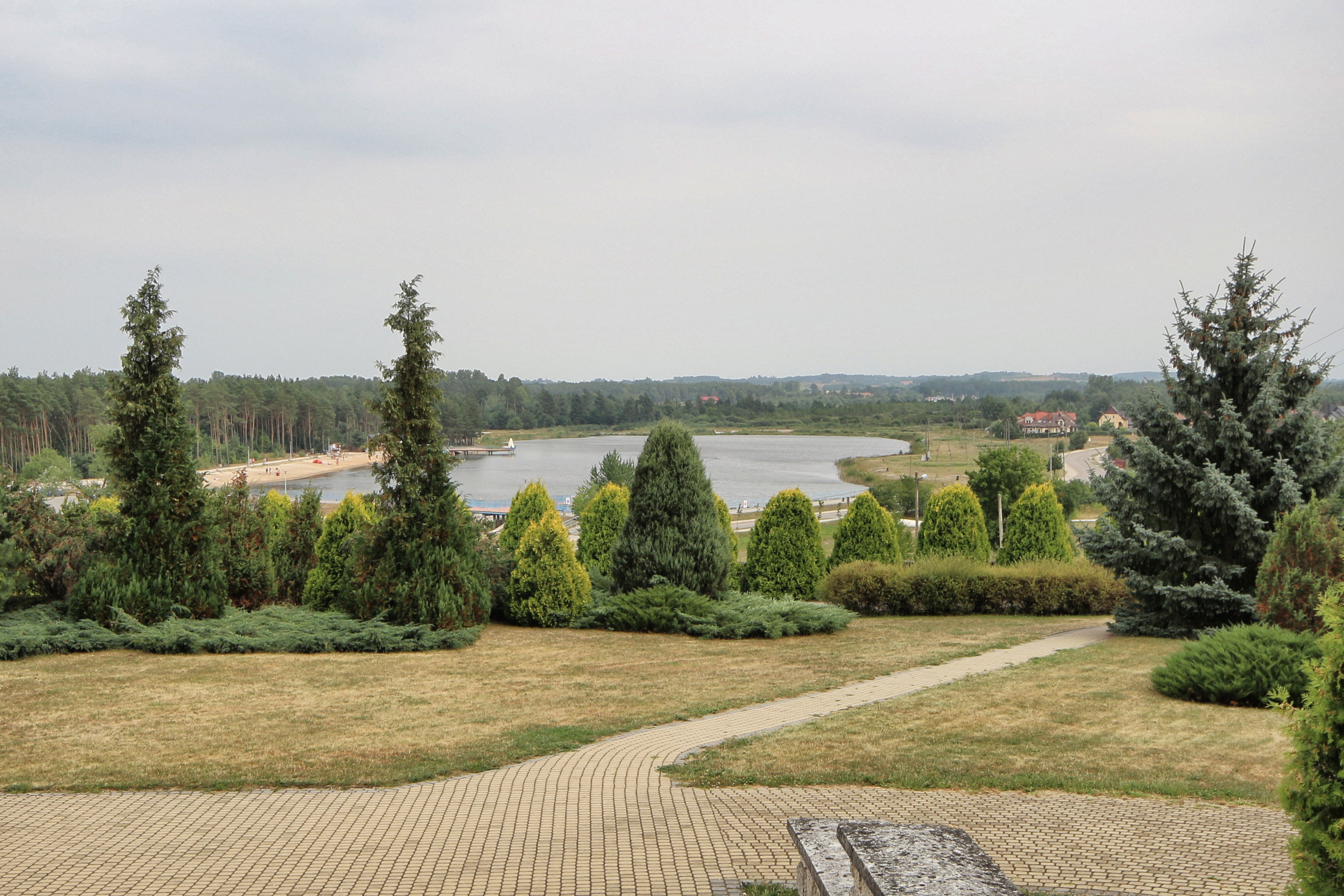 Zalew Morawica in Morawica.